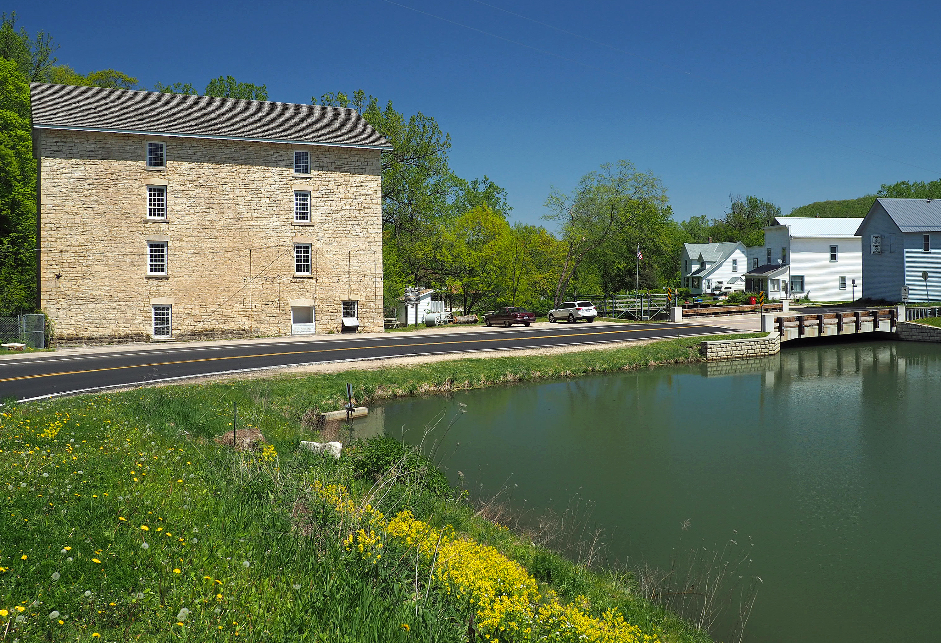 Pickwick, Minnesota, USA - view looking northeast from County Highway 7 toward the Pickwick Mill, millpond, and modern residences.